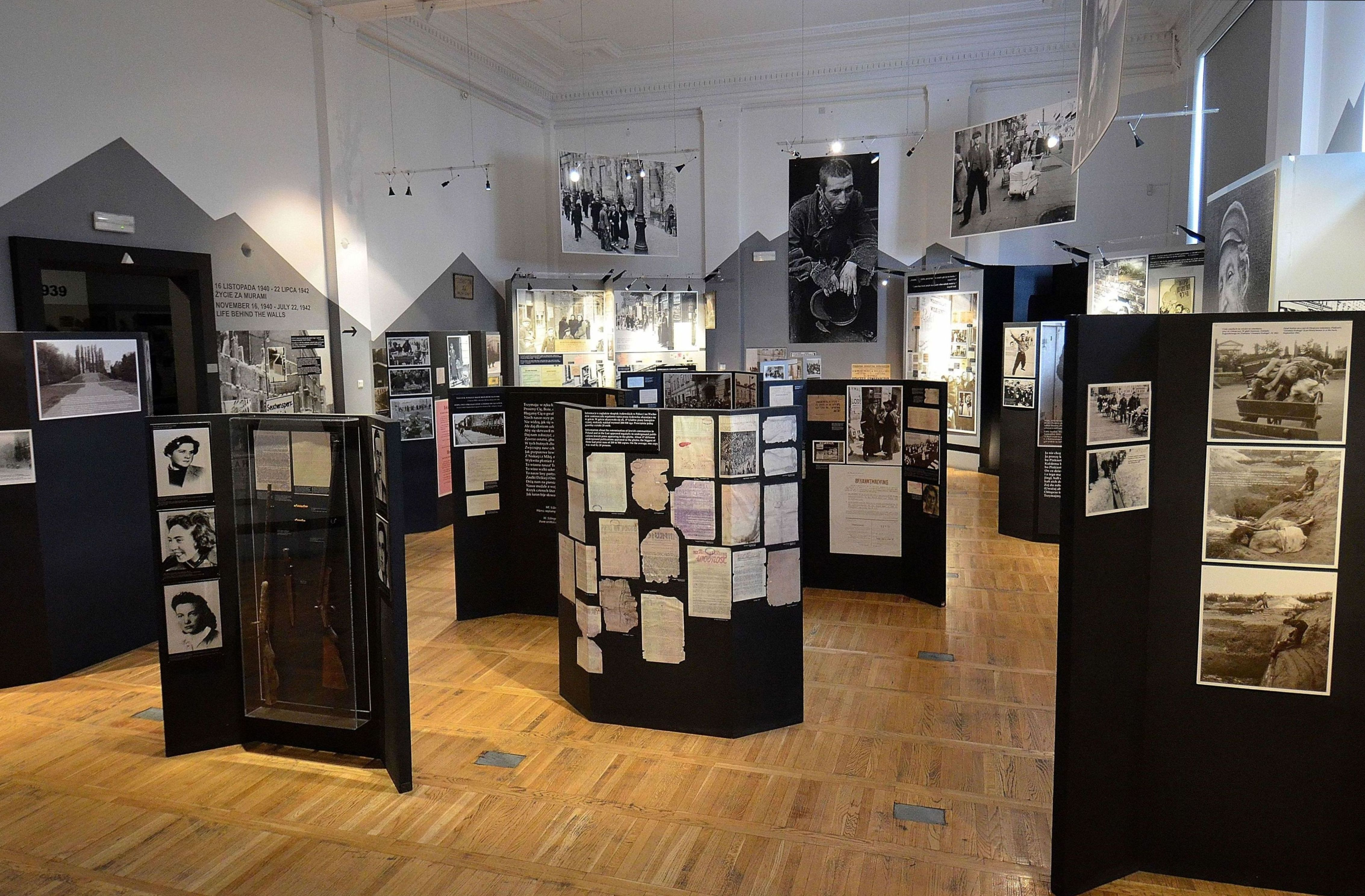 An exhibition on the first floor of the Jewish Historical Institute in Warsaw